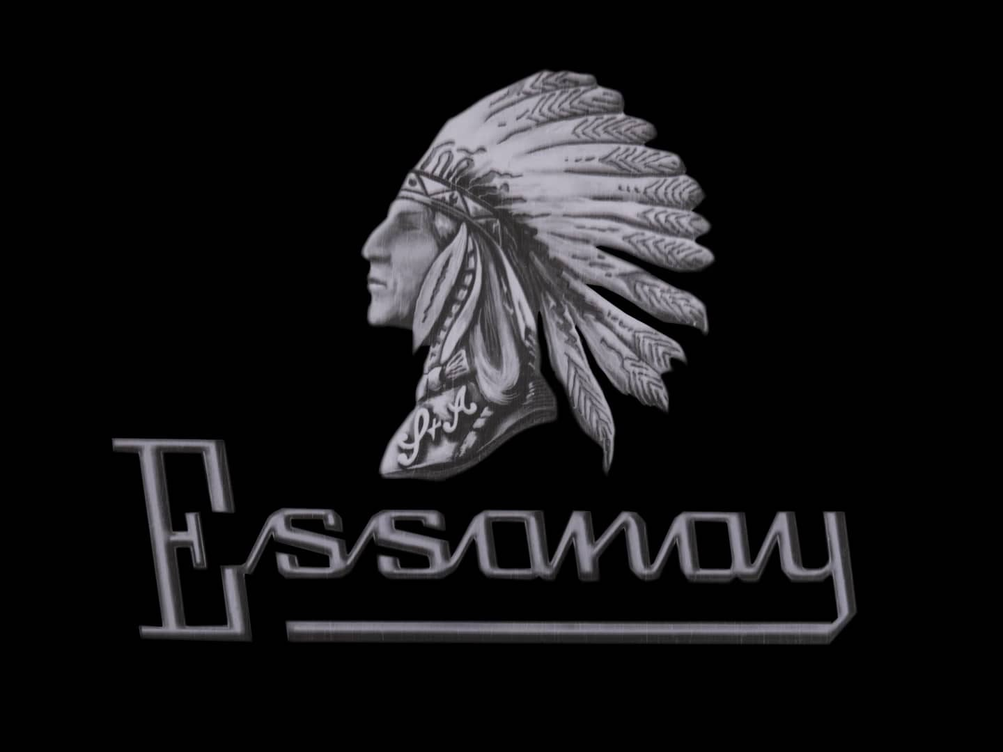 Still from 1915 Charlie Chaplin comedy produced by Essanay, showing studio logo